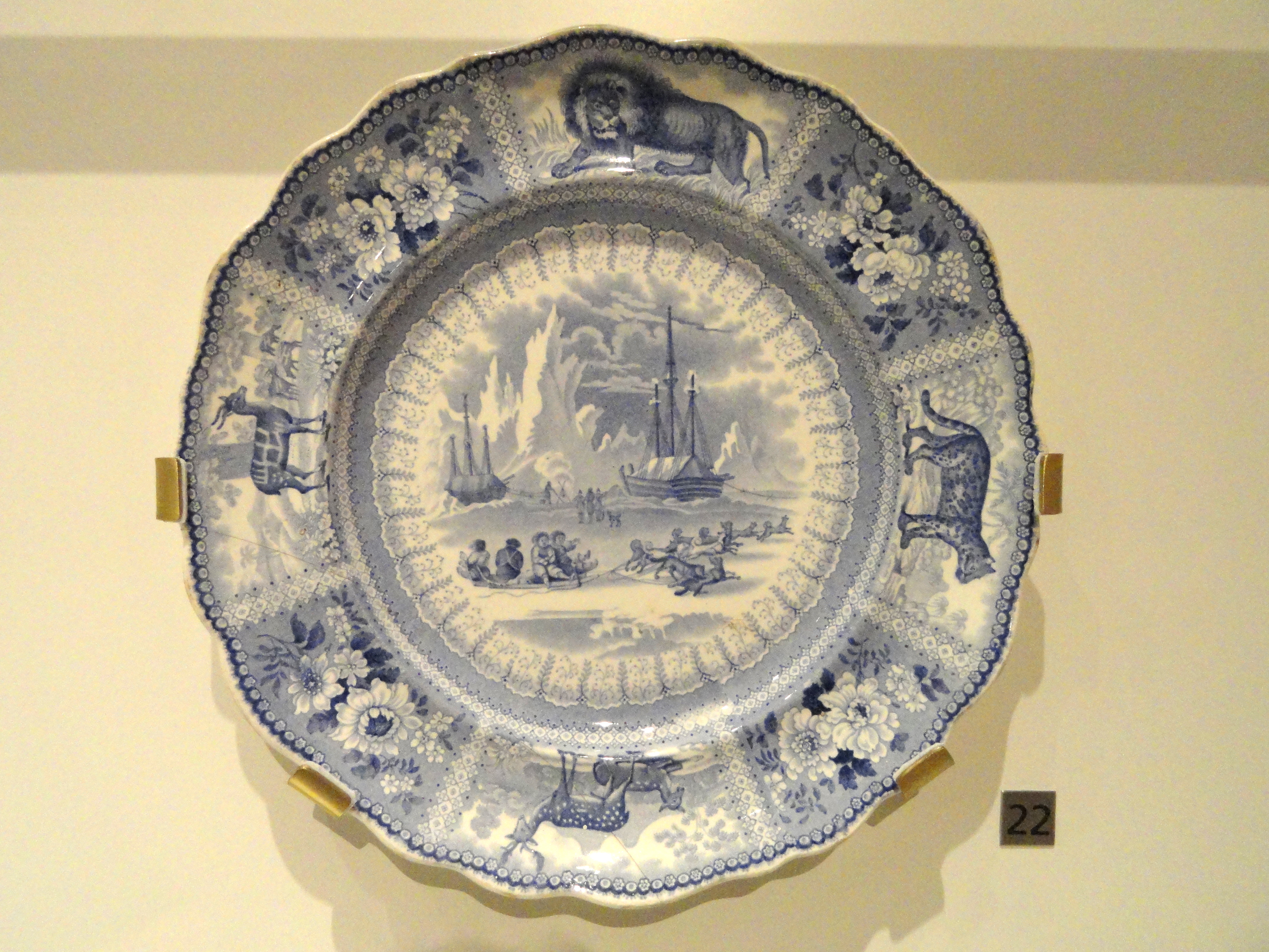 Exhibit in the Royal Ontario Museum, Toronto, Ontario, Canada. This exhibit is old enough so that it is in the public domain. Photography was permitted in the museum. I took this photograph and release it into the public domain.